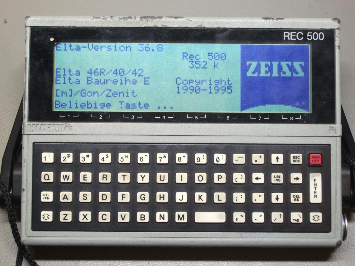 compact computer made by "Husky Computers Ltd, Coventry, England, UK" , model 352KEL, marketed as "Zeiss REC500" running Zeiss software for data management of theodlites, ca 1992